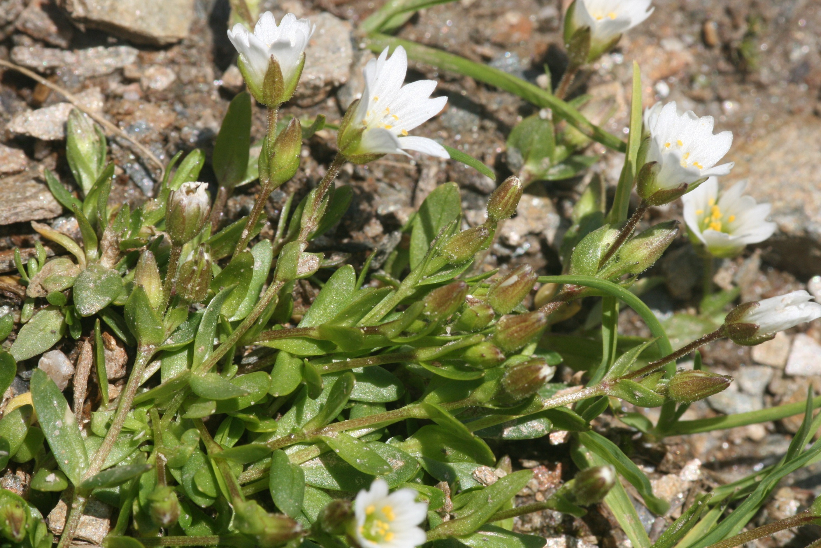 Cerastium cerastoides